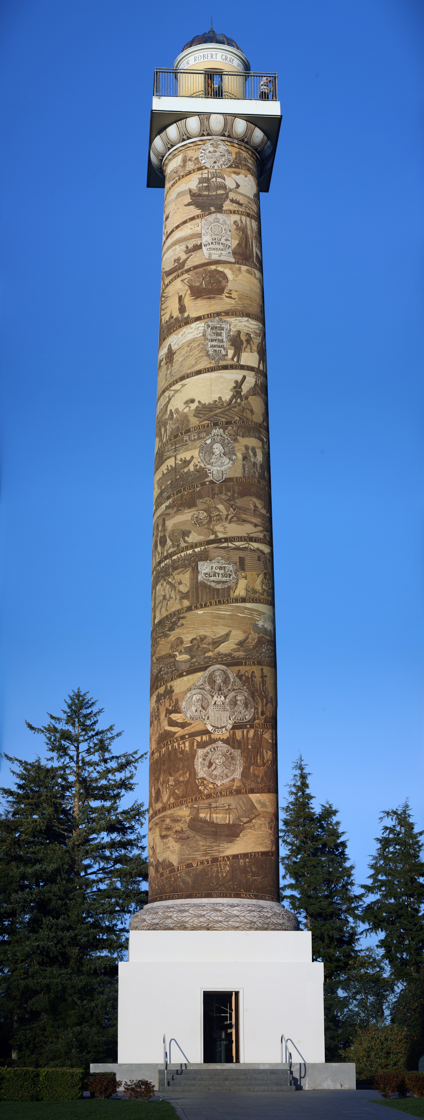 The Astoria Column in Astoria, Oregon.